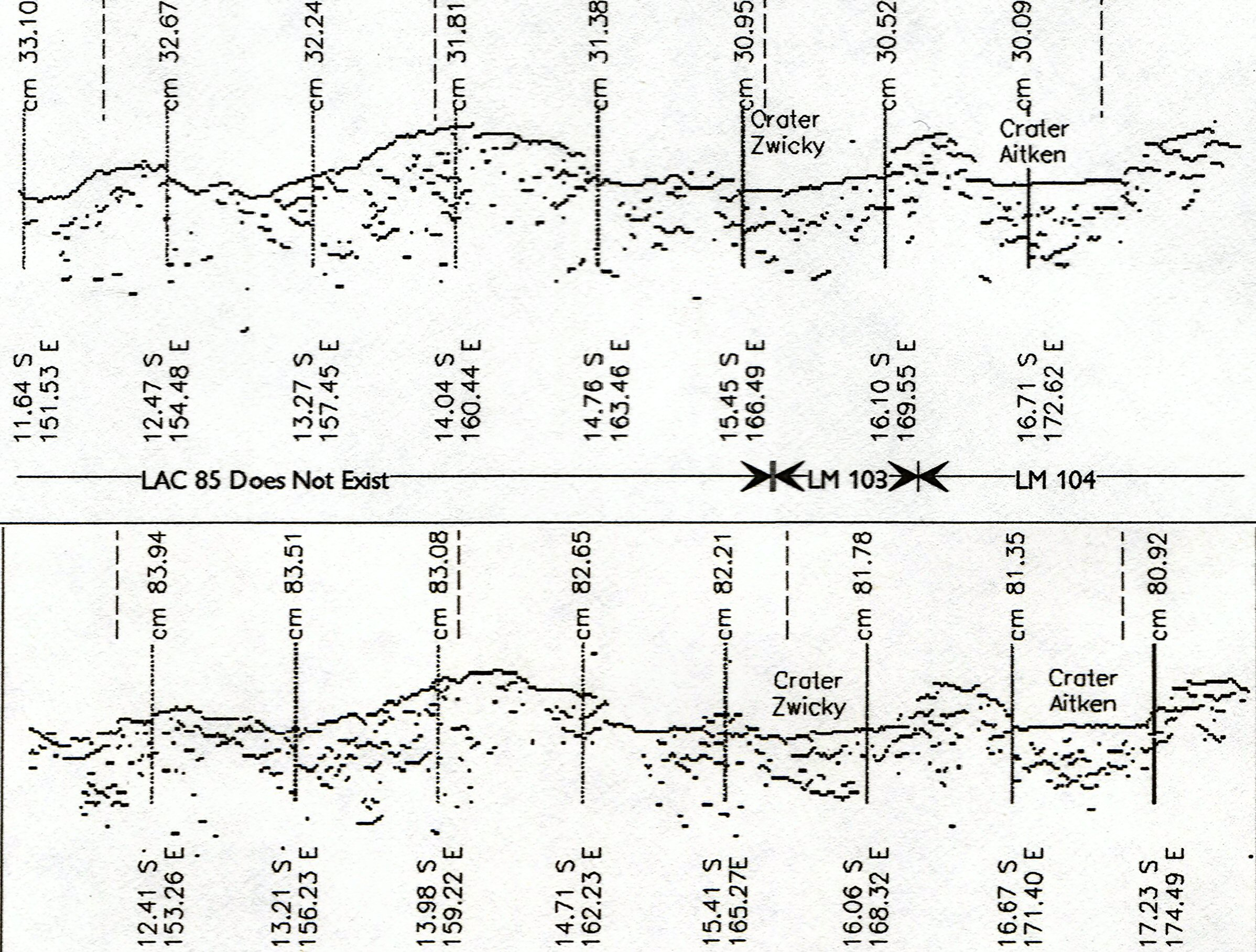 ALSE Apollo Lunar Sounder, Aikten basin (16.8ºS, 173.4ºE). Plots of strongest radar signals, with latitude and longitude correlation marks and ancillary data.